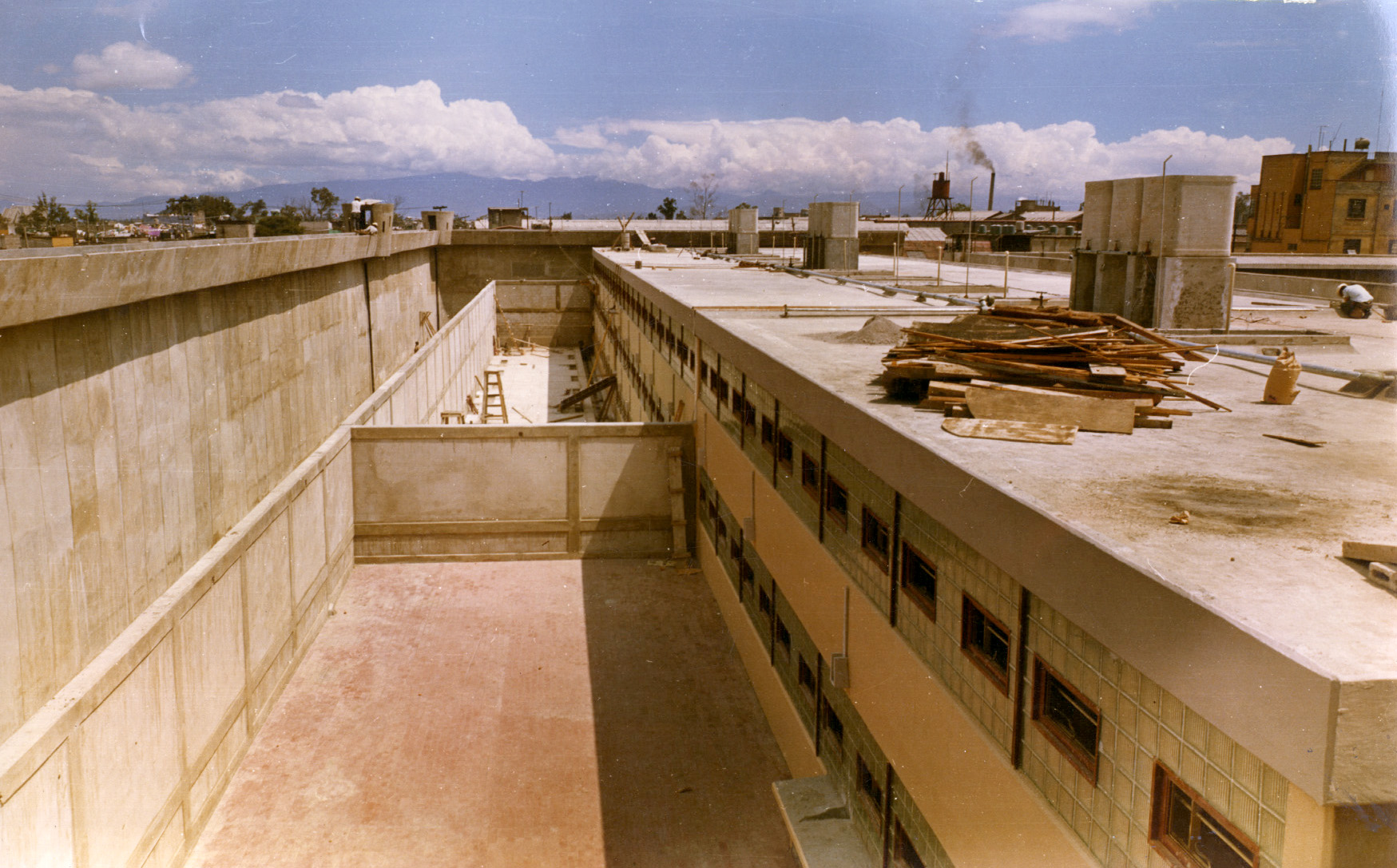 When the prison was almost finished